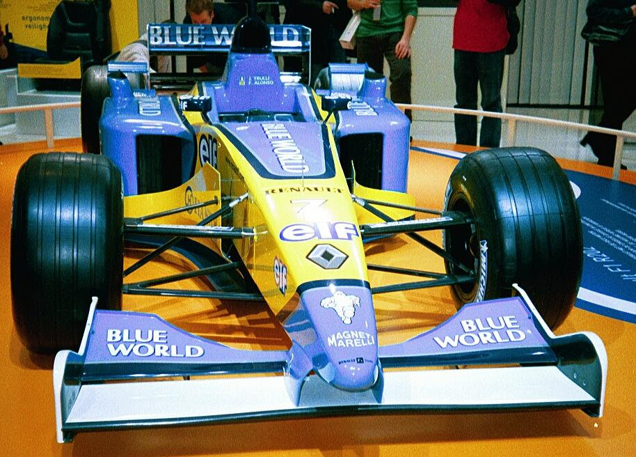 Renault R202 Formule 1 auto op de RAI. Please note this is not an R202, it is a Benetton B200 in Renault colors.